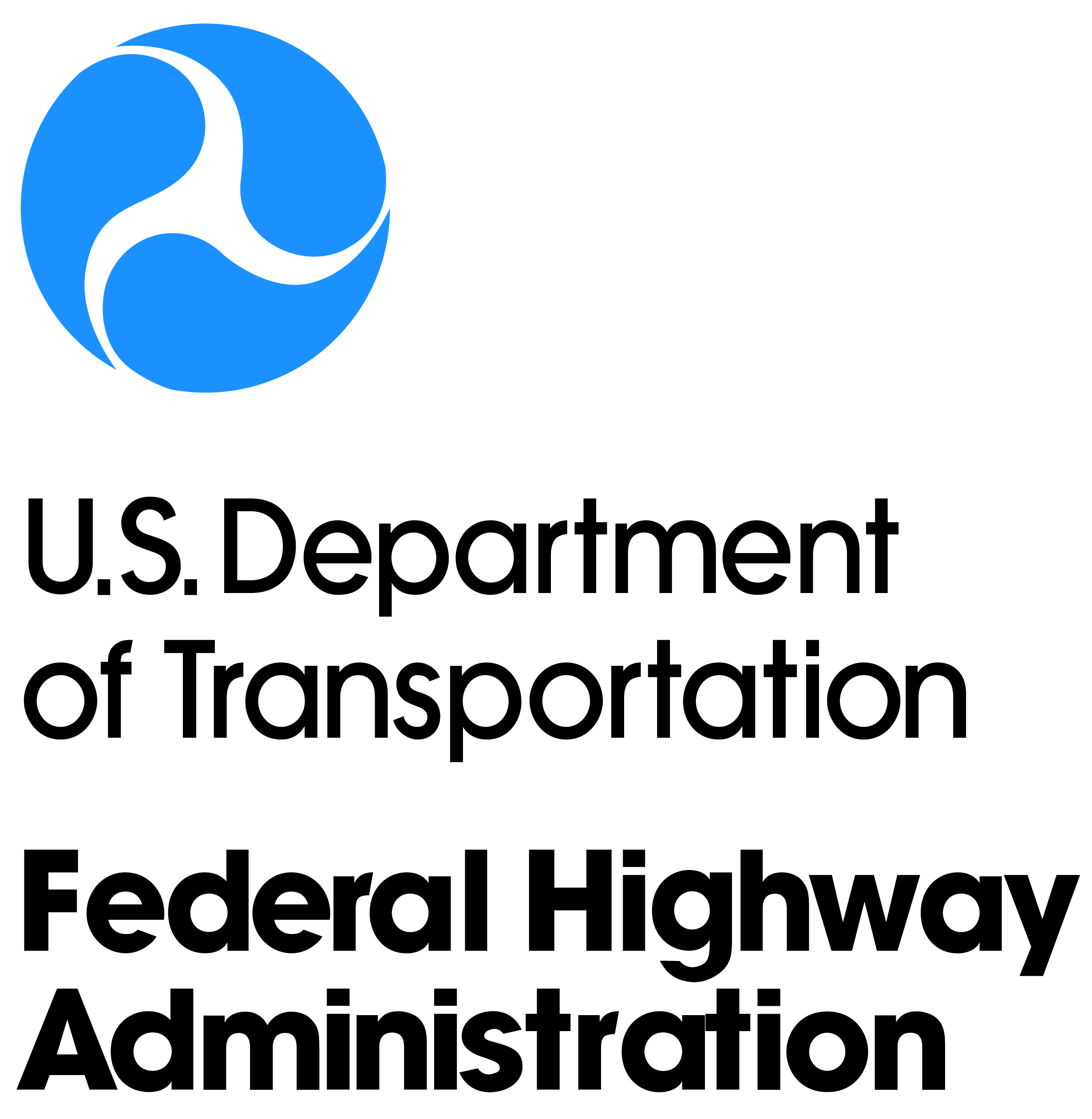 Federal Highway Administration official logo, vertical version, 2013-present